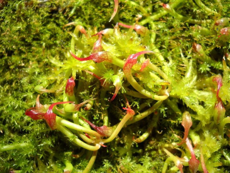 Darlingtonia californica ("cobra lily"), small plants